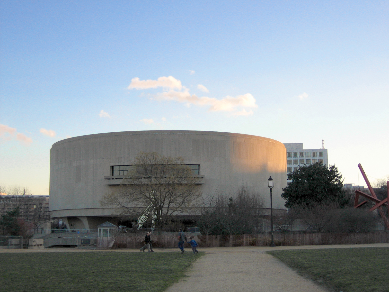 Exterior of the Hirshhorn Museum, Washington, D.C., seen from the National Mall.